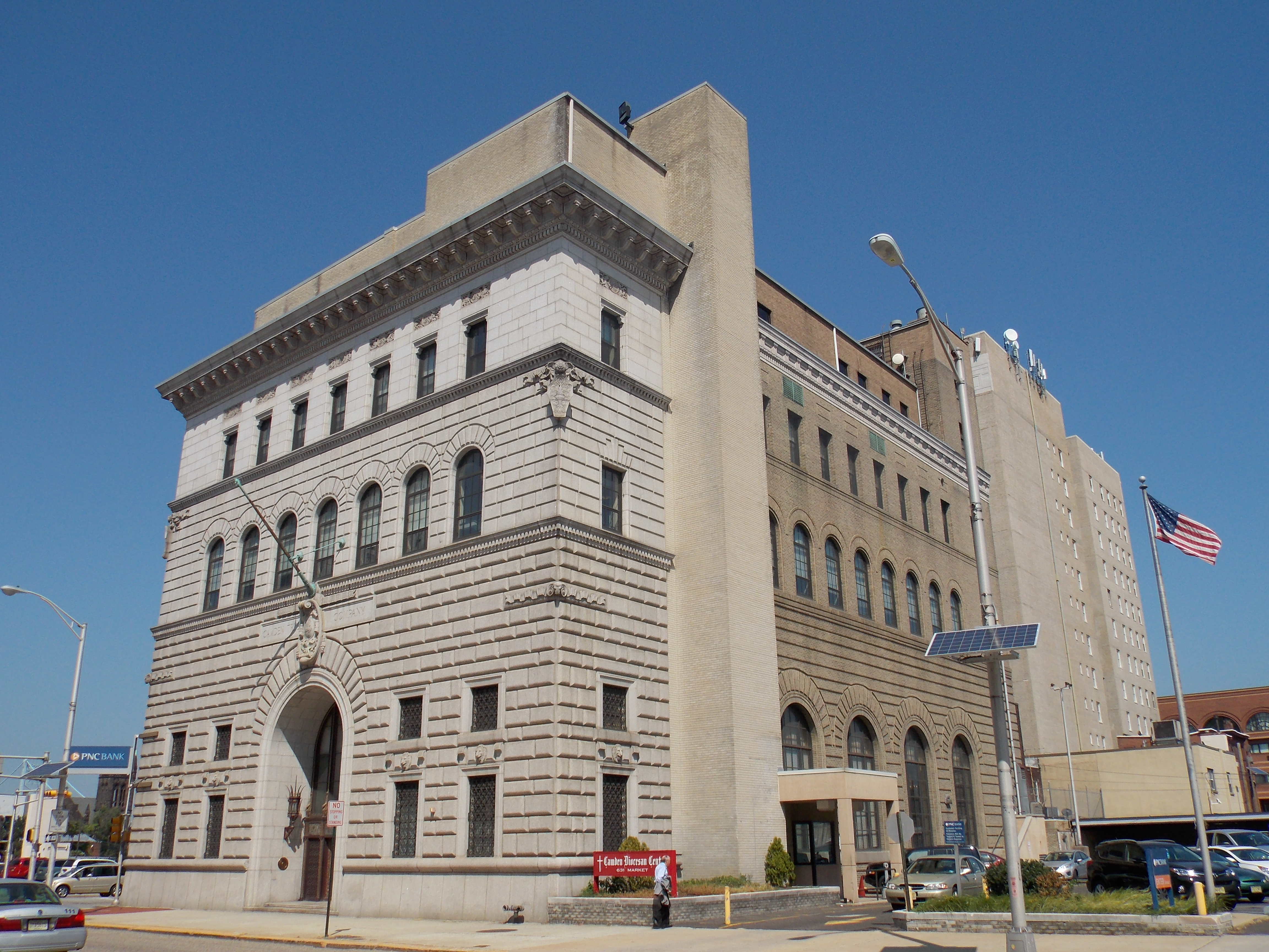 The Camden Diocesan Center in downtown Camden, New Jersey houses the headquarters for the Catholic Diocese of Camden and a bank.